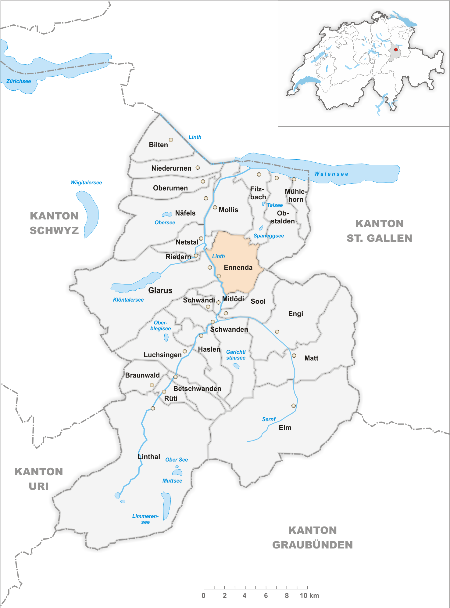 Municipality Ennenda